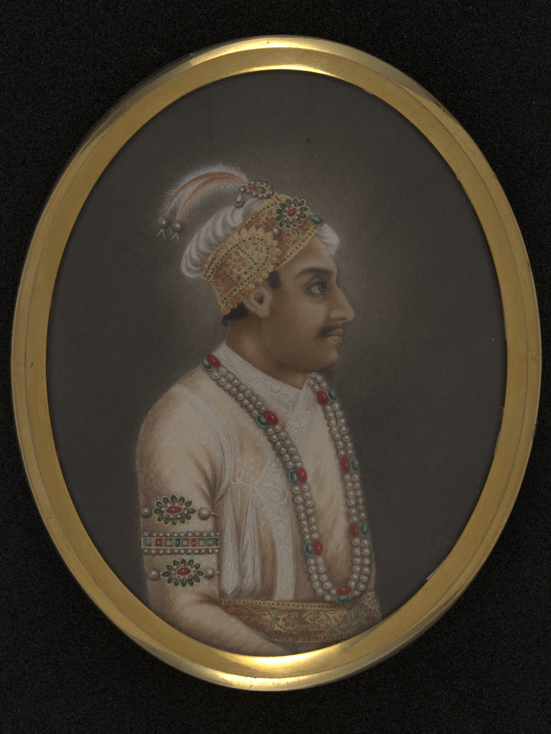 One of twelve miniatures depicting Mughal rulers of India; head and shoulders in profile.